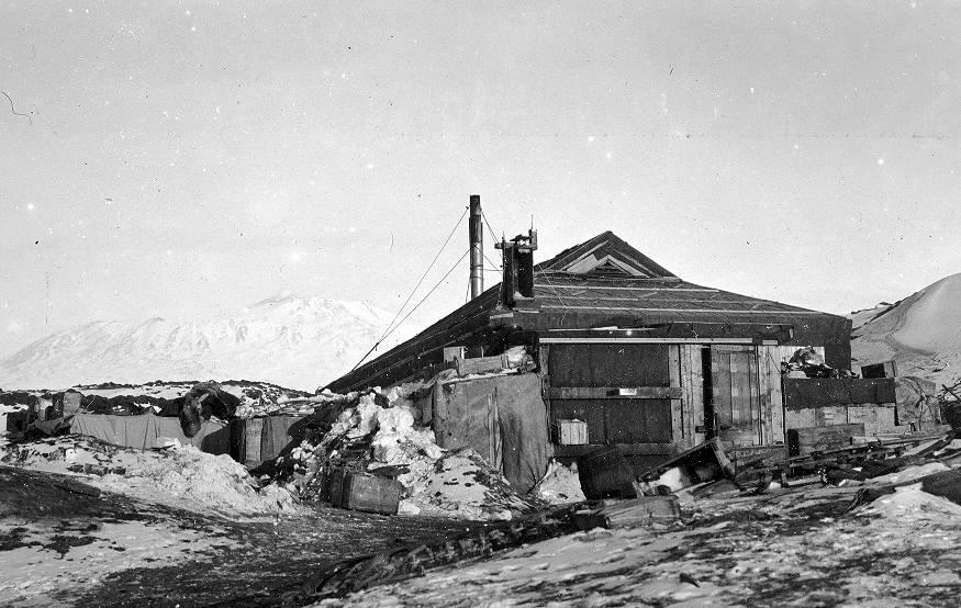 Winter quarter of the Nimrod Expedition (1907-1909) at Cape Royds, Ross Island, Antarctica.